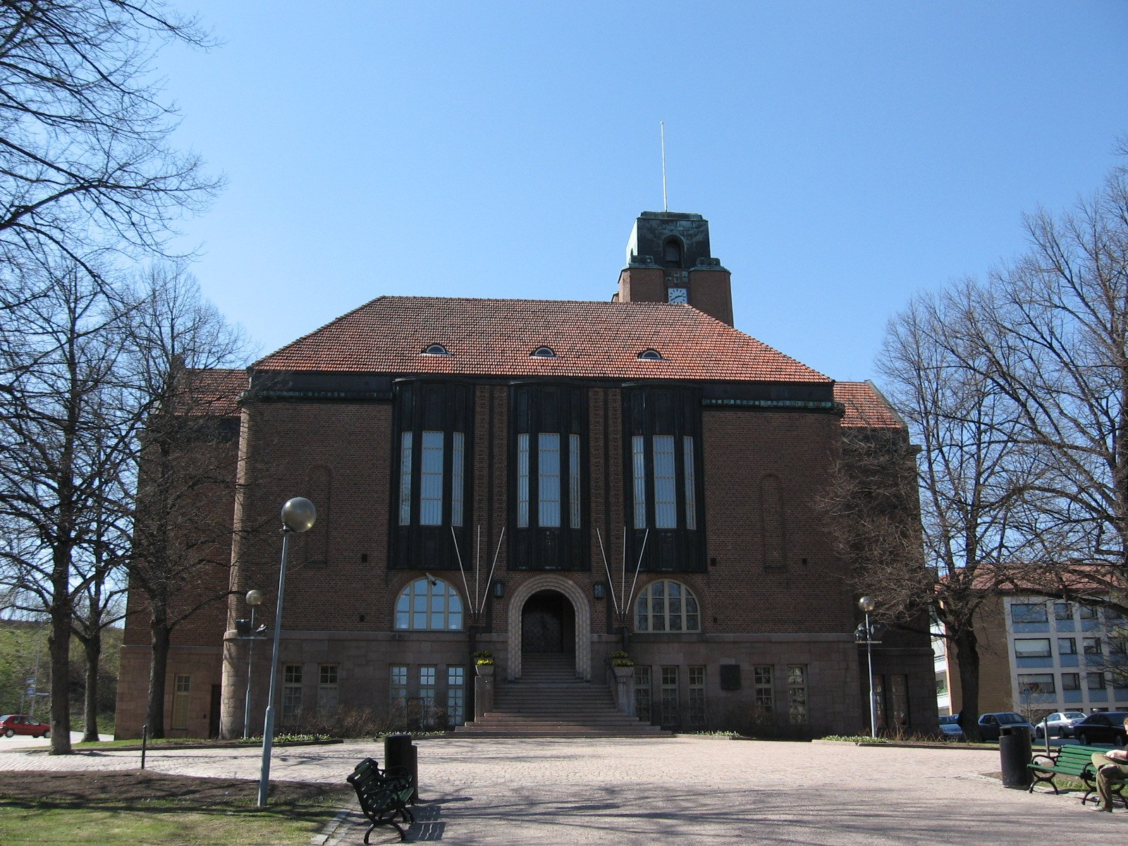 City hall of Lahti, Finland